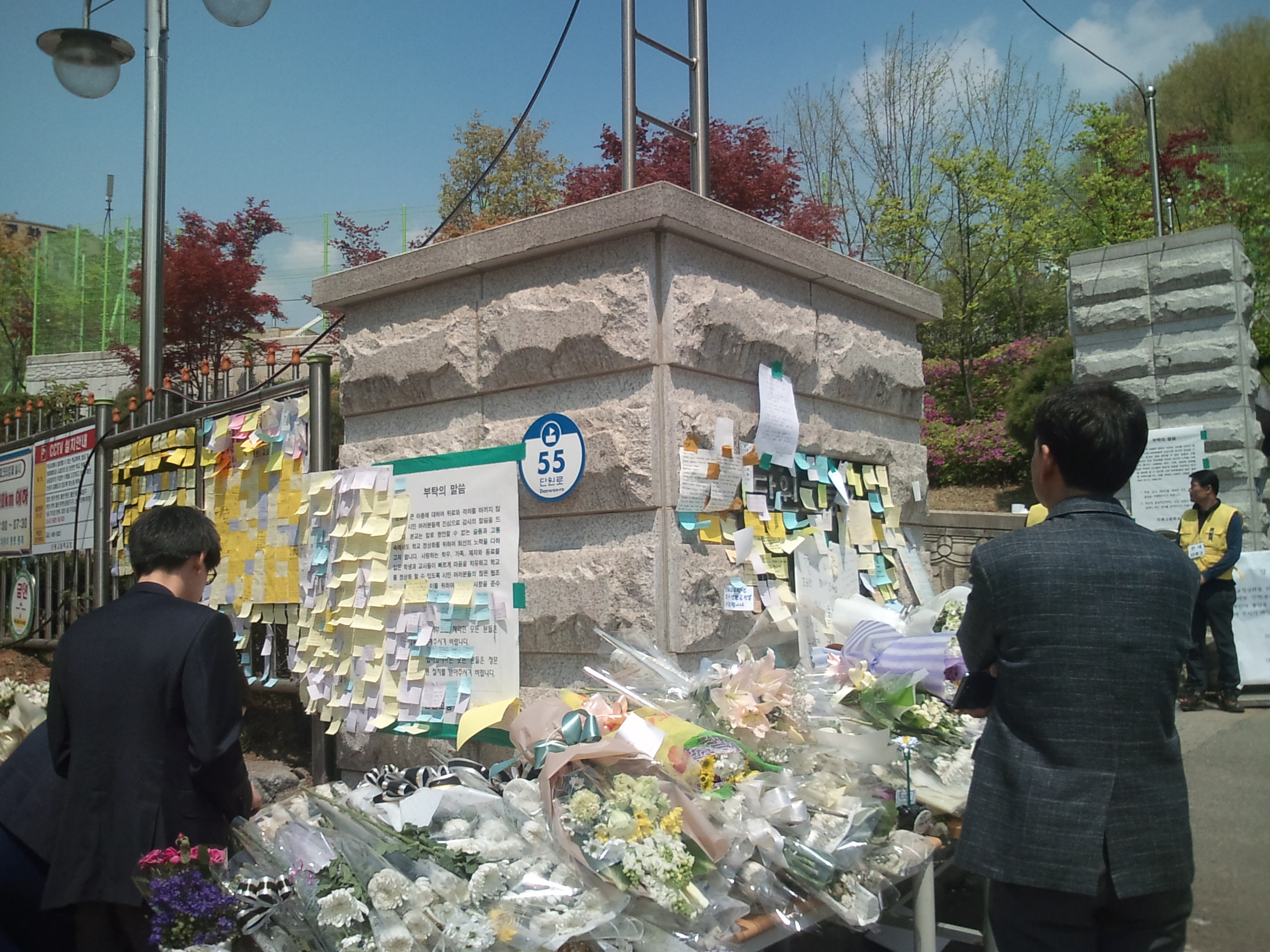 Photo of a memorial organised for the victims of the sinking of the MV Sewol near Tanwon Secondary School in Korea.